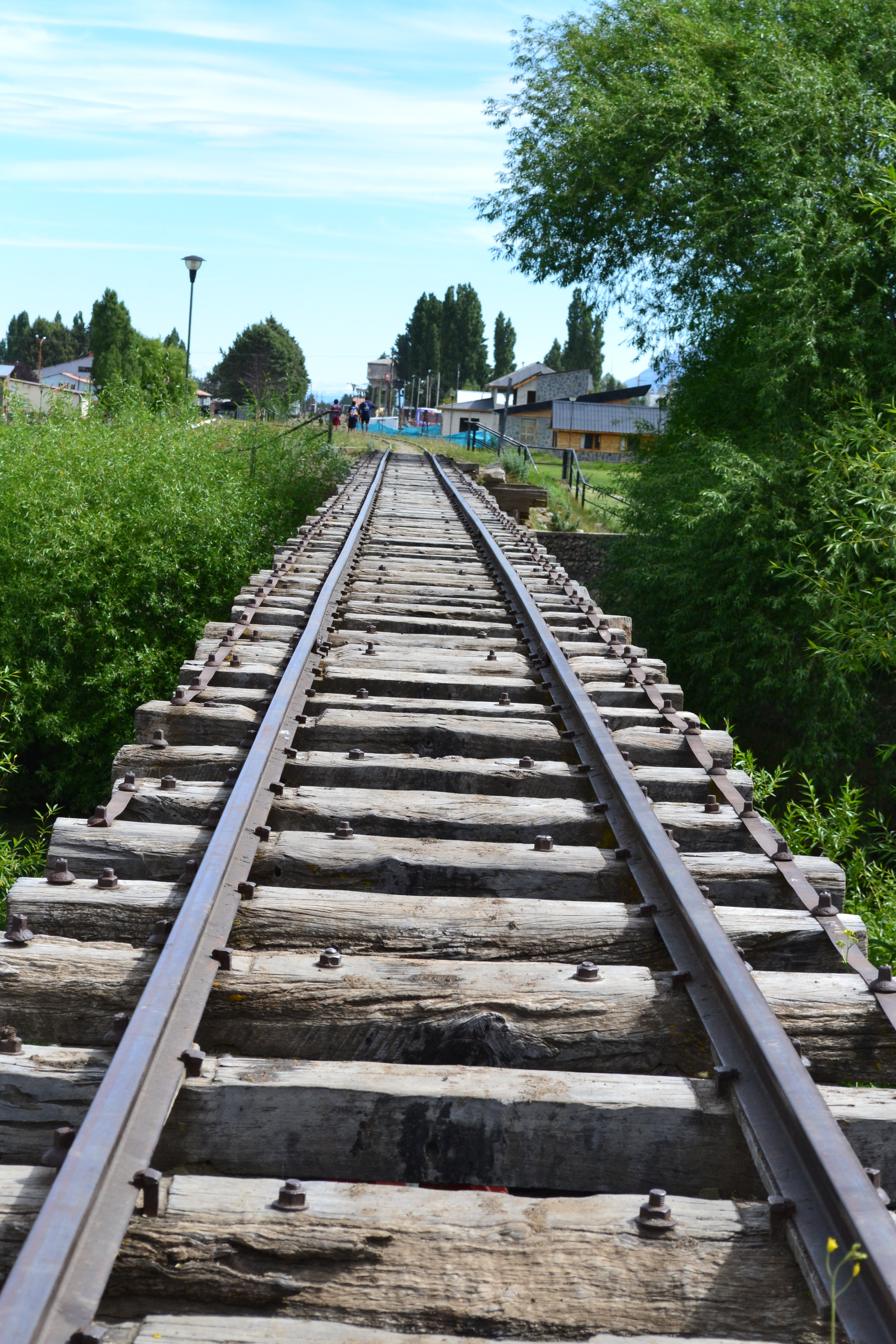 In the railroad